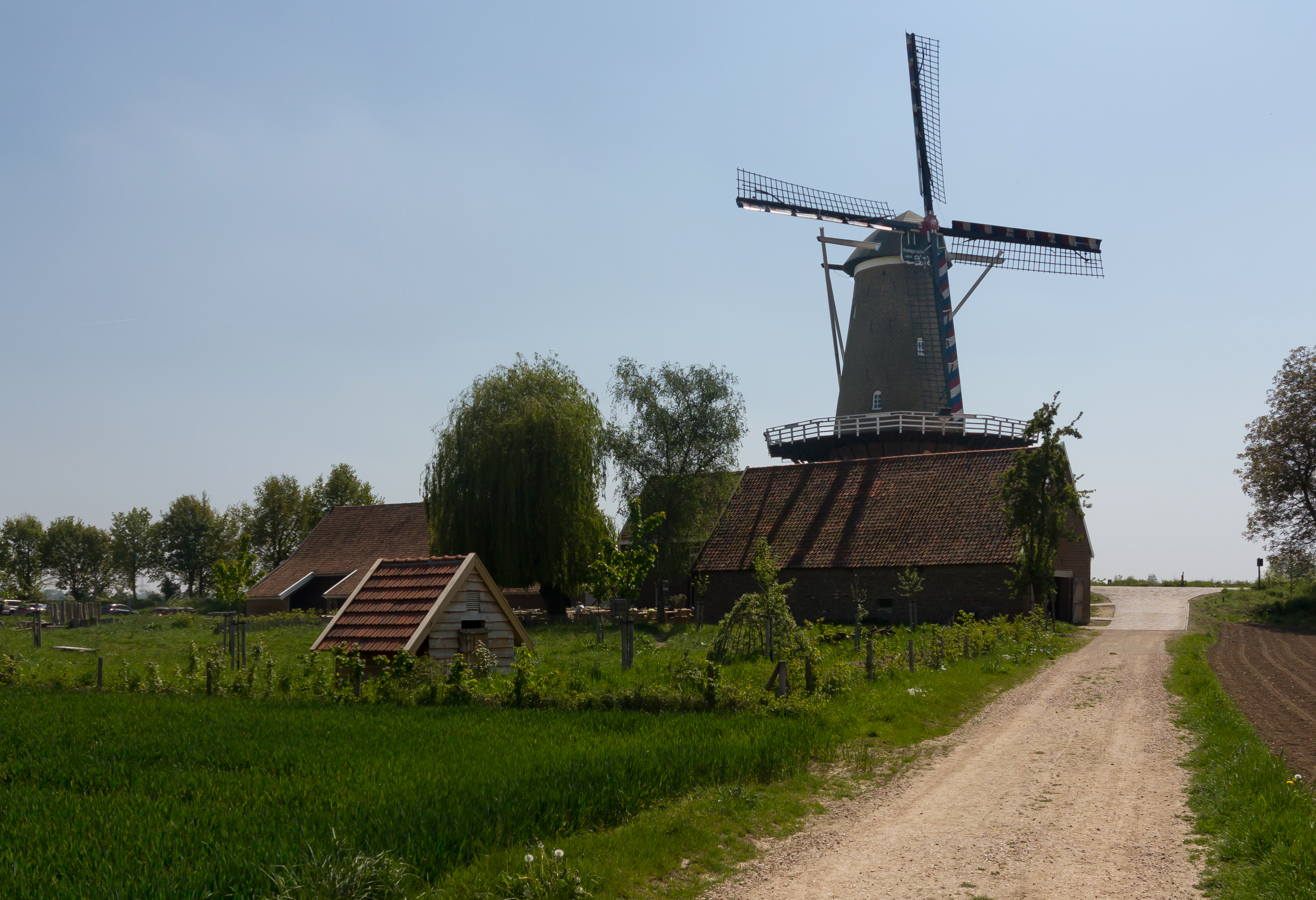 Stevensweert, windmill: de Hompesche Molen